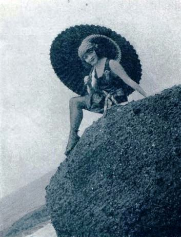 American actress Betty Compson, page 61 of the April 1922 Film Fun.